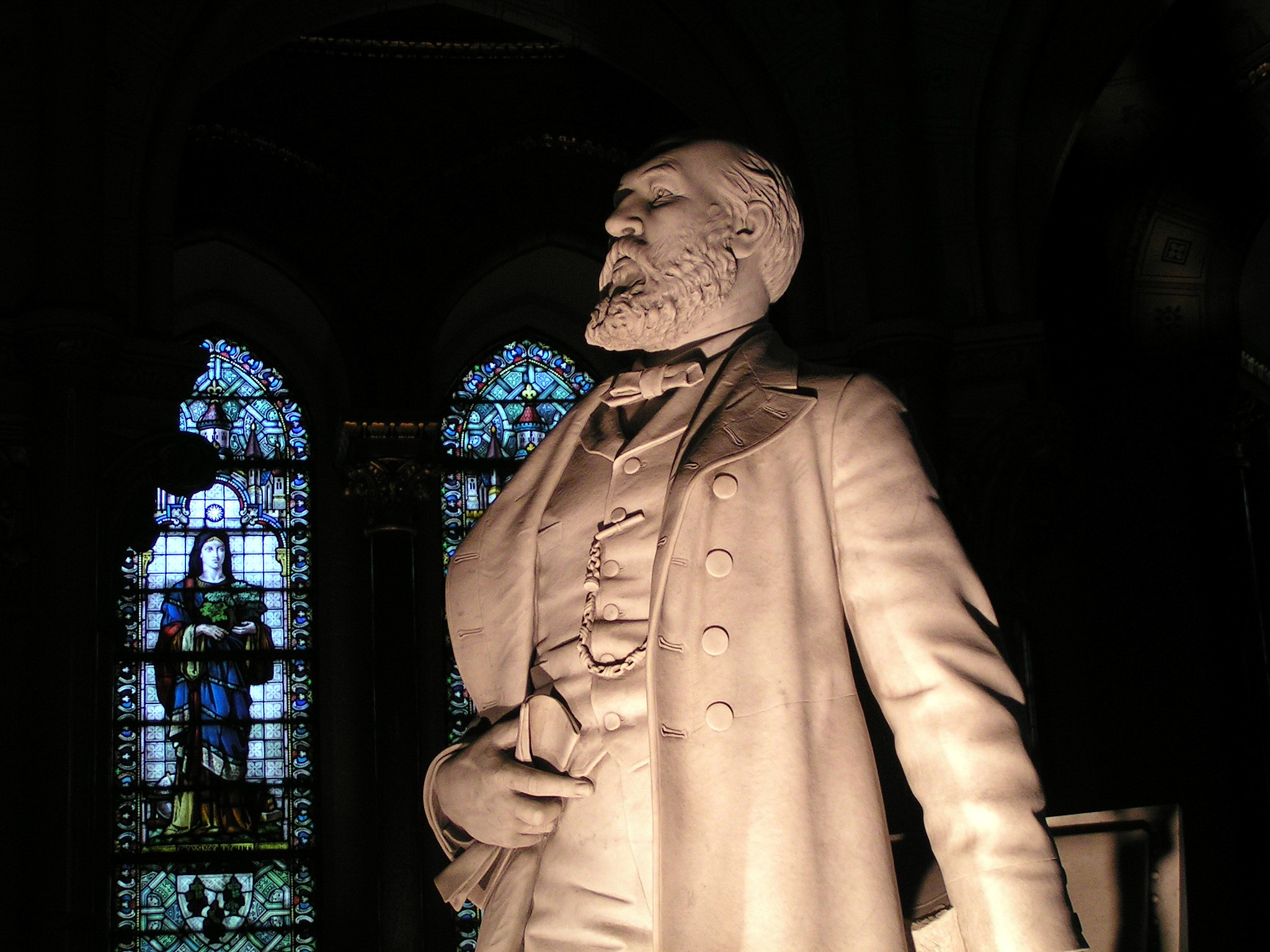 Statue of President James A. Garfield in the Garfield Monument at Lakeview Cemetery